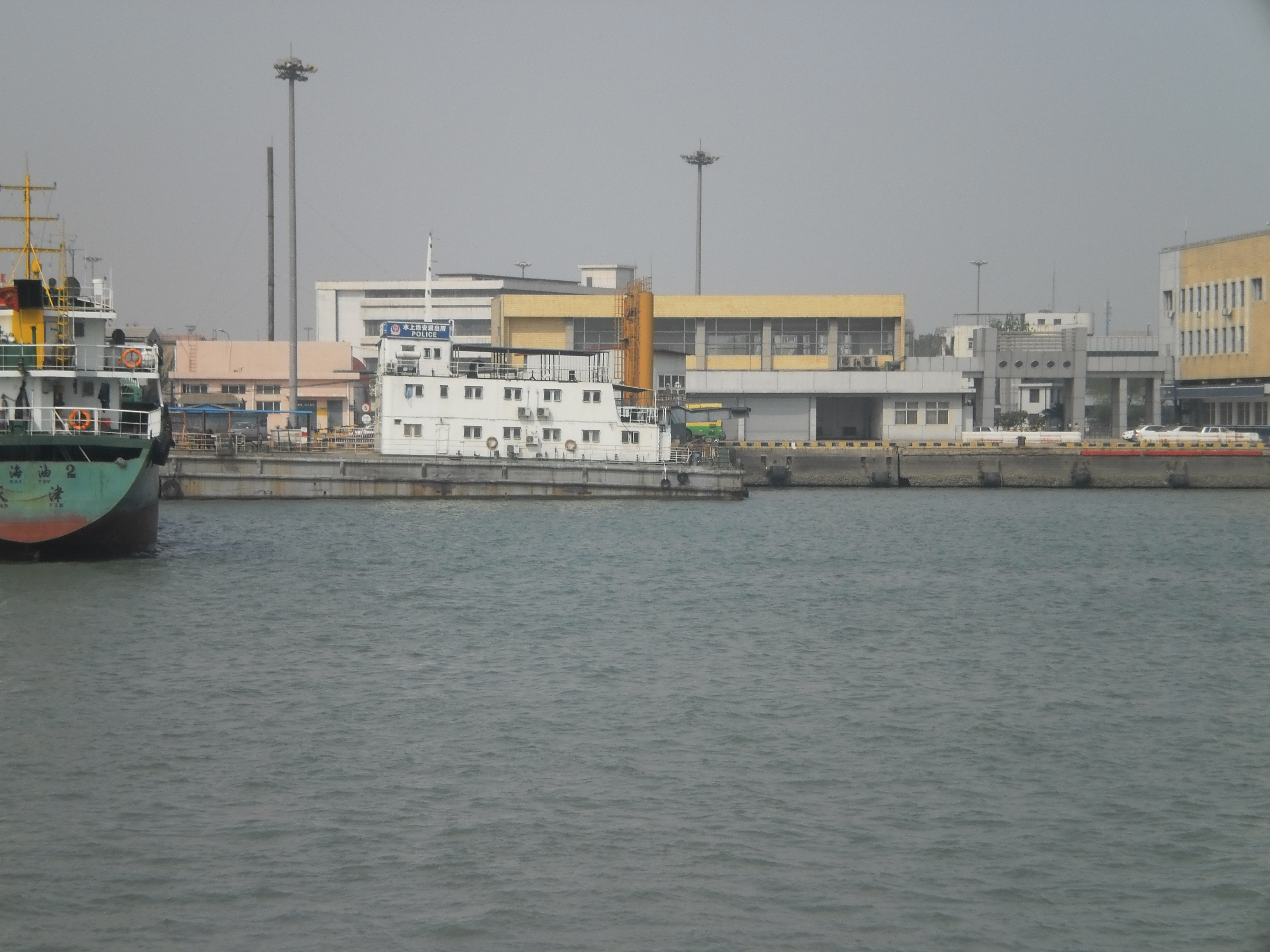 Tianjin Port Floating Pontoon Police Station, built on a refurbished floating crane, berthed on the passenger terminal.